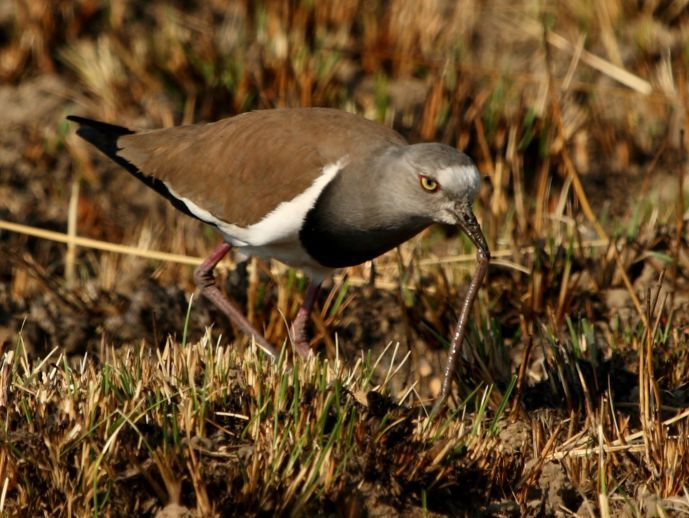 Black-winged Lapwing, Vanellus melanopterus, with large earthworm at Midmar Game Reserve, KwaZulu-Natal.